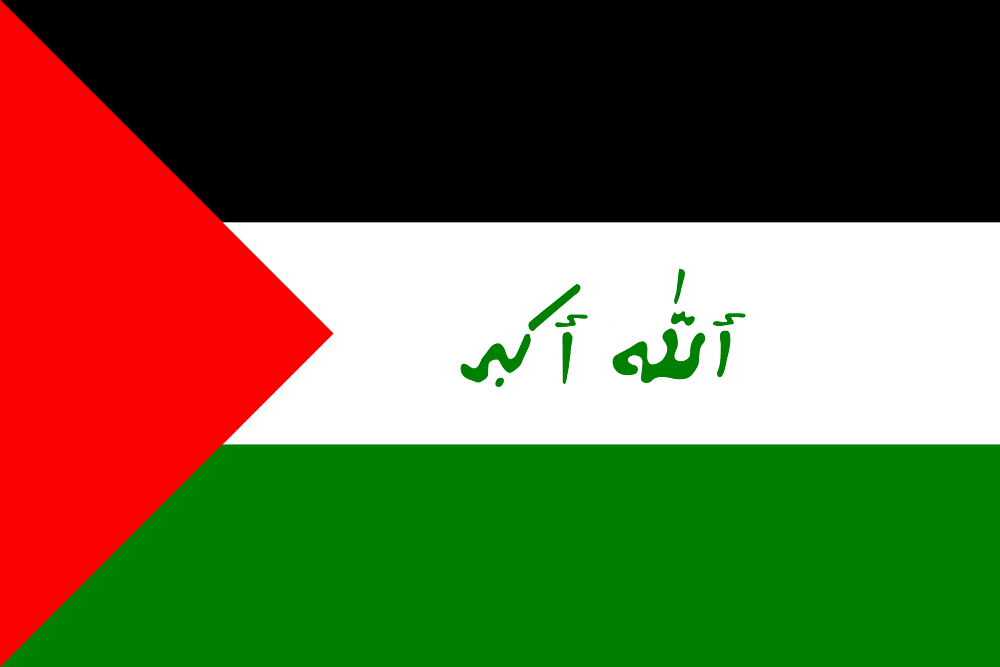 Variant of the Baath Party flag as seen in Logo of the Iraqi Supreme Command for Jihad and Liberation (Baath-led resistance alliance)